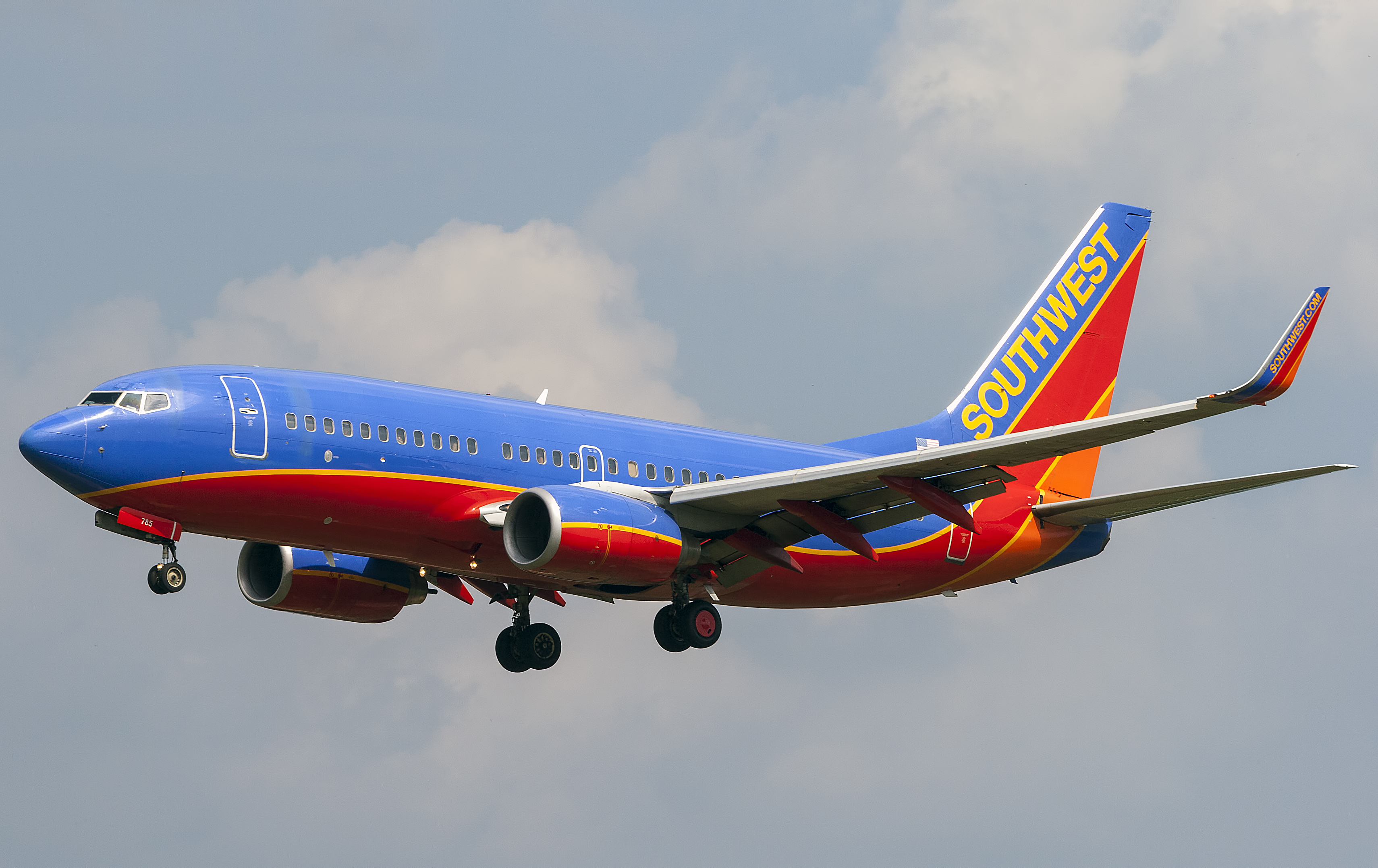 Southwest N785SW landing at Baltimore-Washington International Airport, Maryland, USA